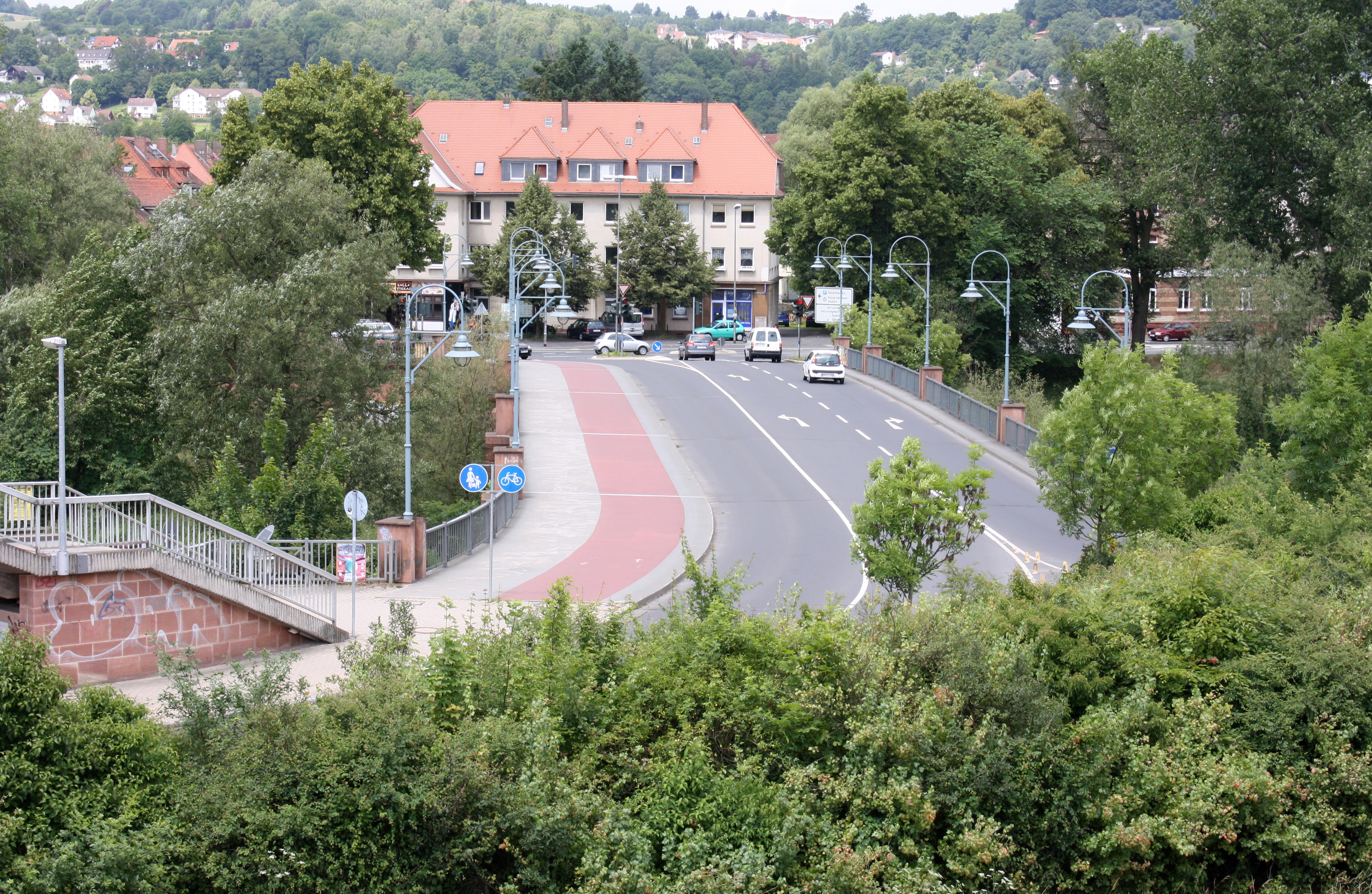 The Schützenpfuhl bridge in Marburg